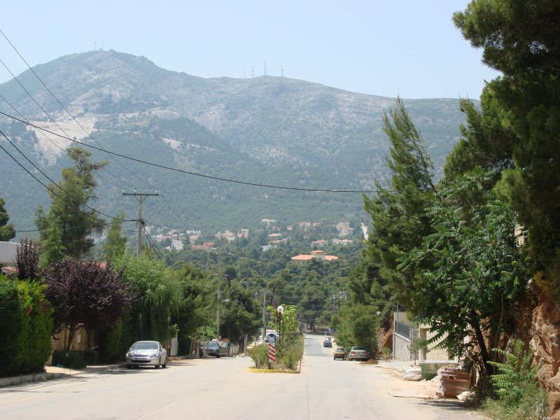 Dionysos Skyline, Greece